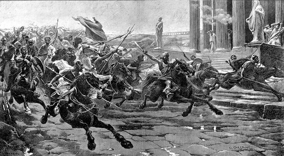 Invasion of the Barbarians or The Huns approaching Rome